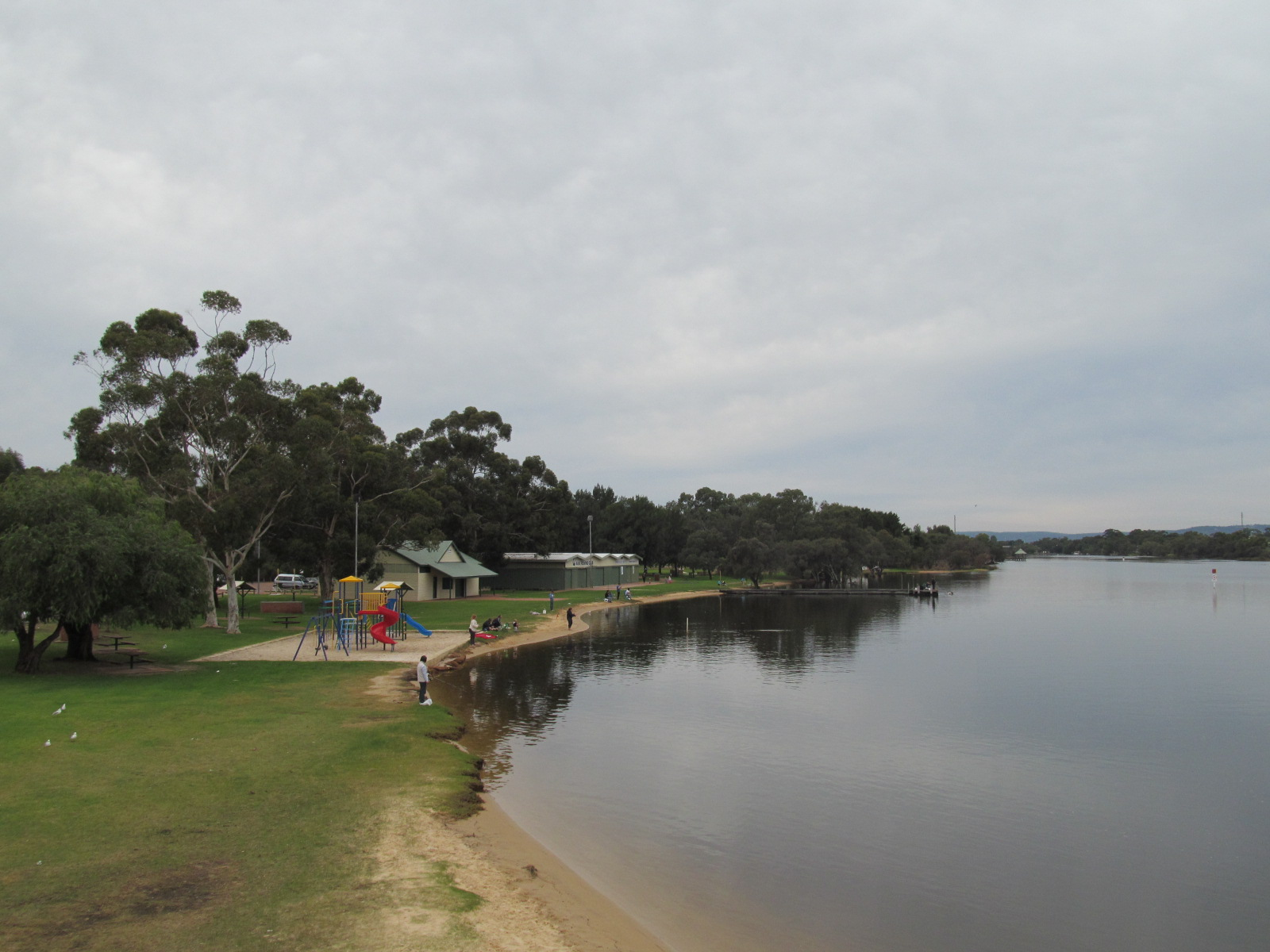 Bayswater rowing club as seen from the Garratt Road bridge.